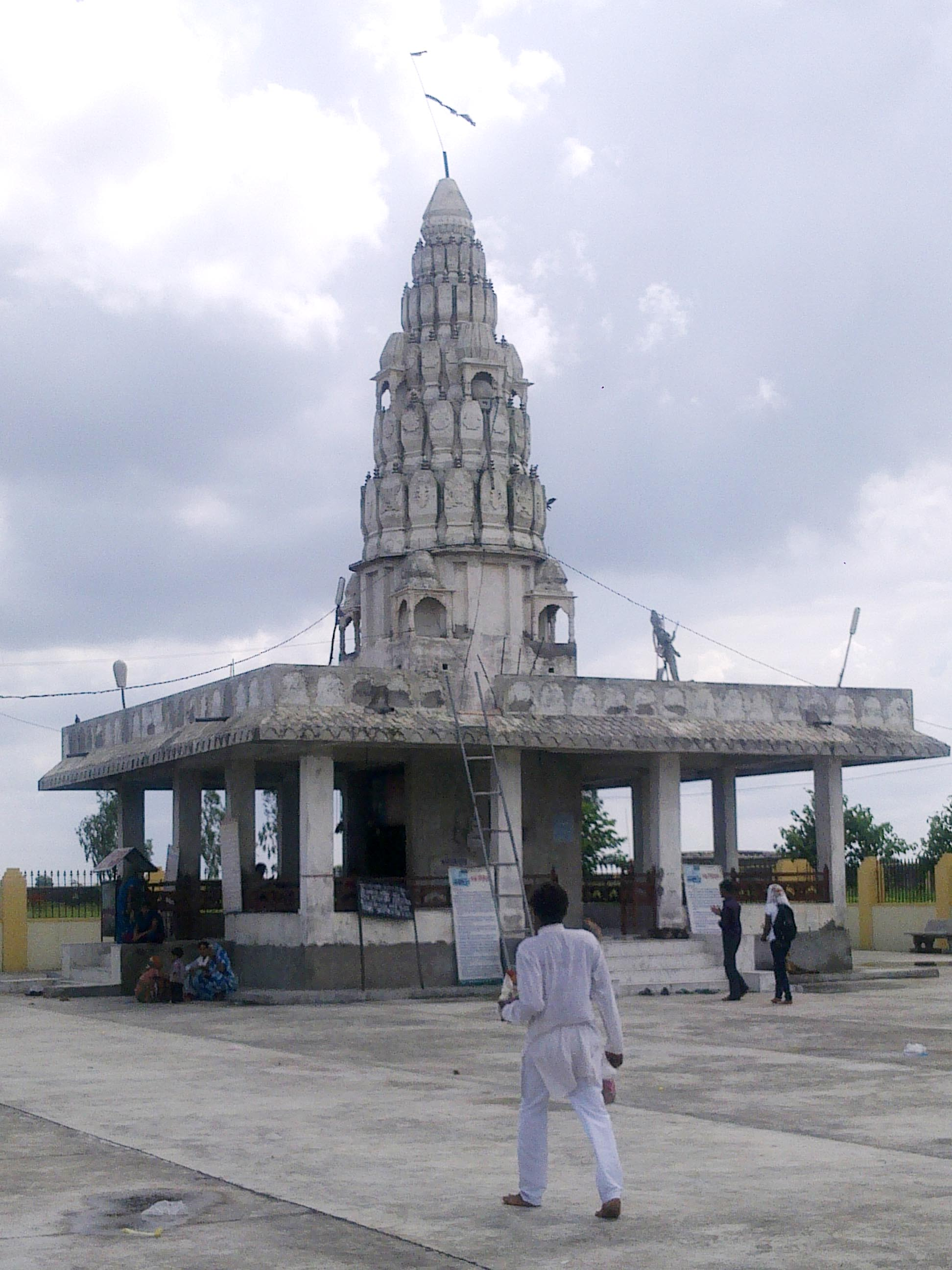 shani temple in bordi village near baran city. there is fair on shani amavasya every year. and 500000 people on that day